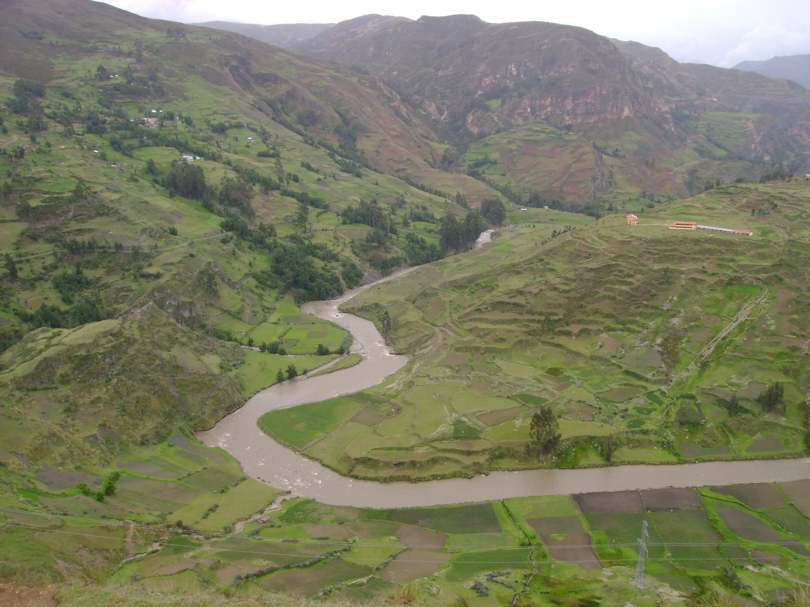 Marañón river in Lauricocha province.